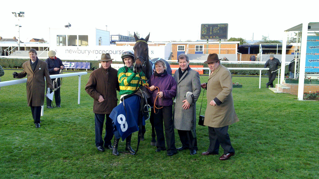 Aigle D'or and winning connections Newbury